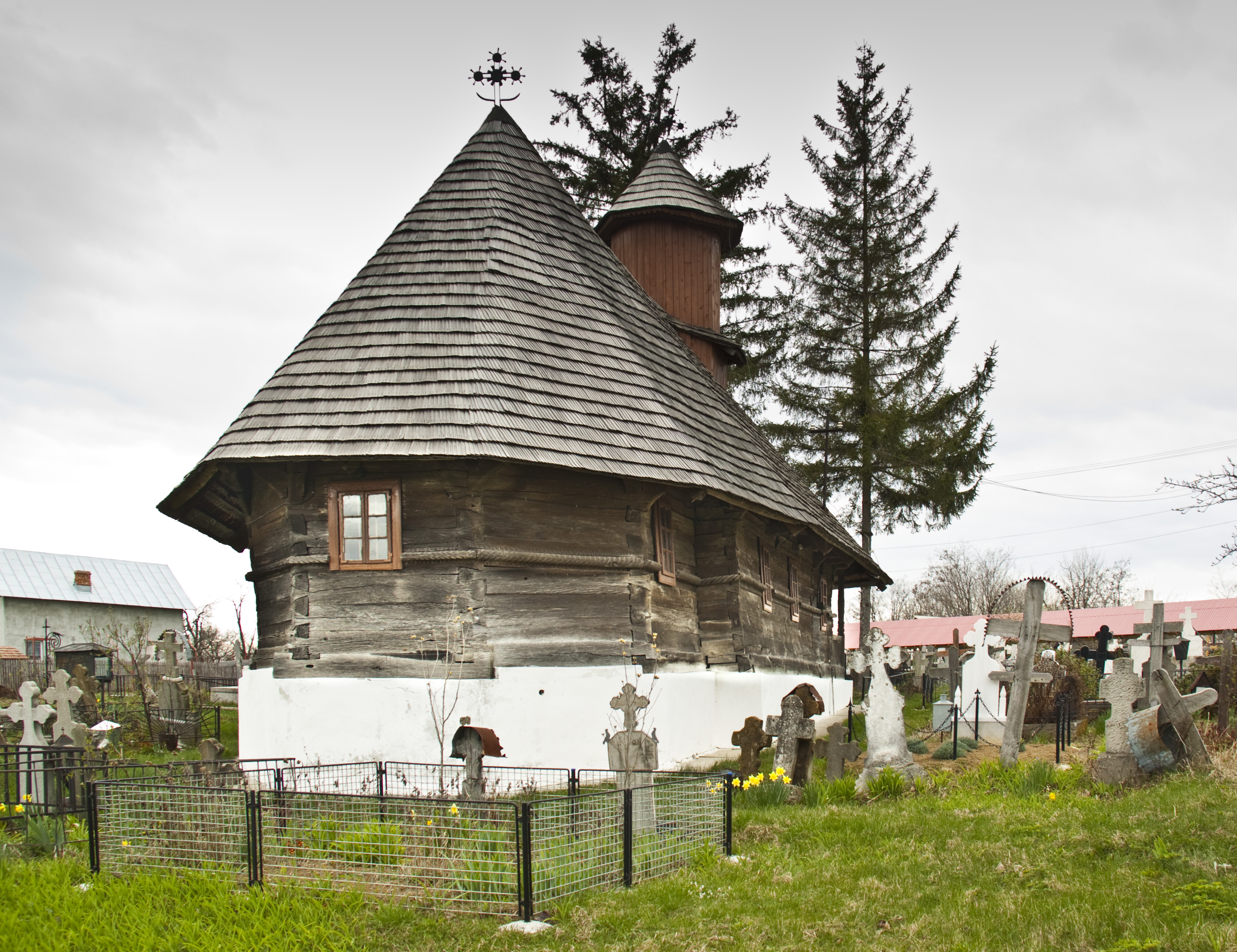 Wooden church in Morăreşti - Piscu Calului.